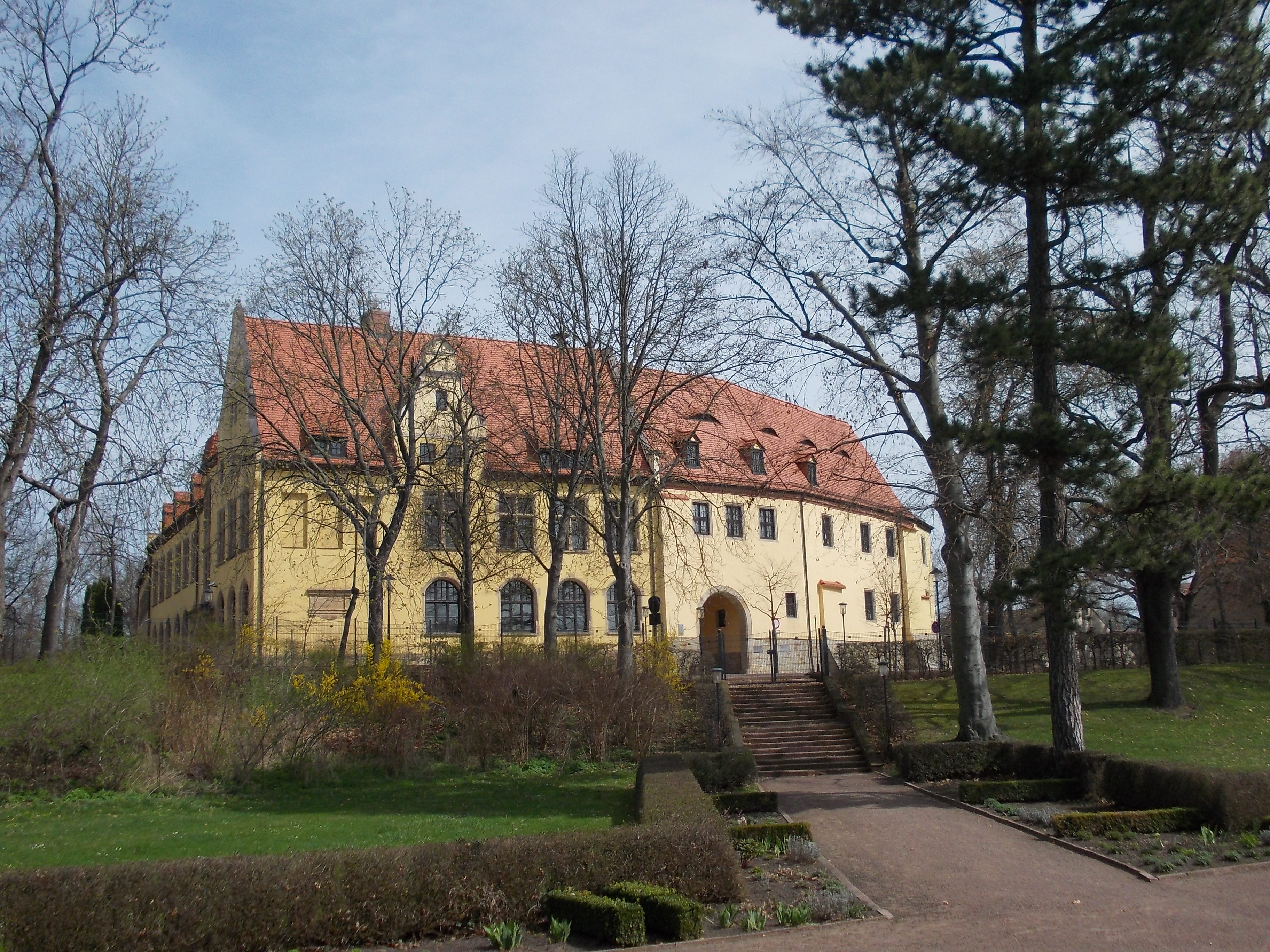 The castle of Bad Lauchstädt (district of Saalekreis, Saxony-Anhalt)